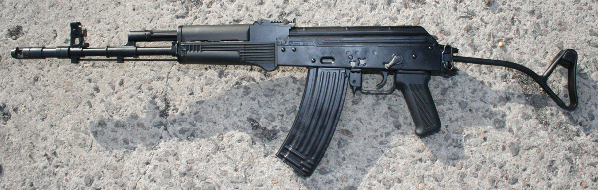 kbk wz. 1988 Tantal, late version